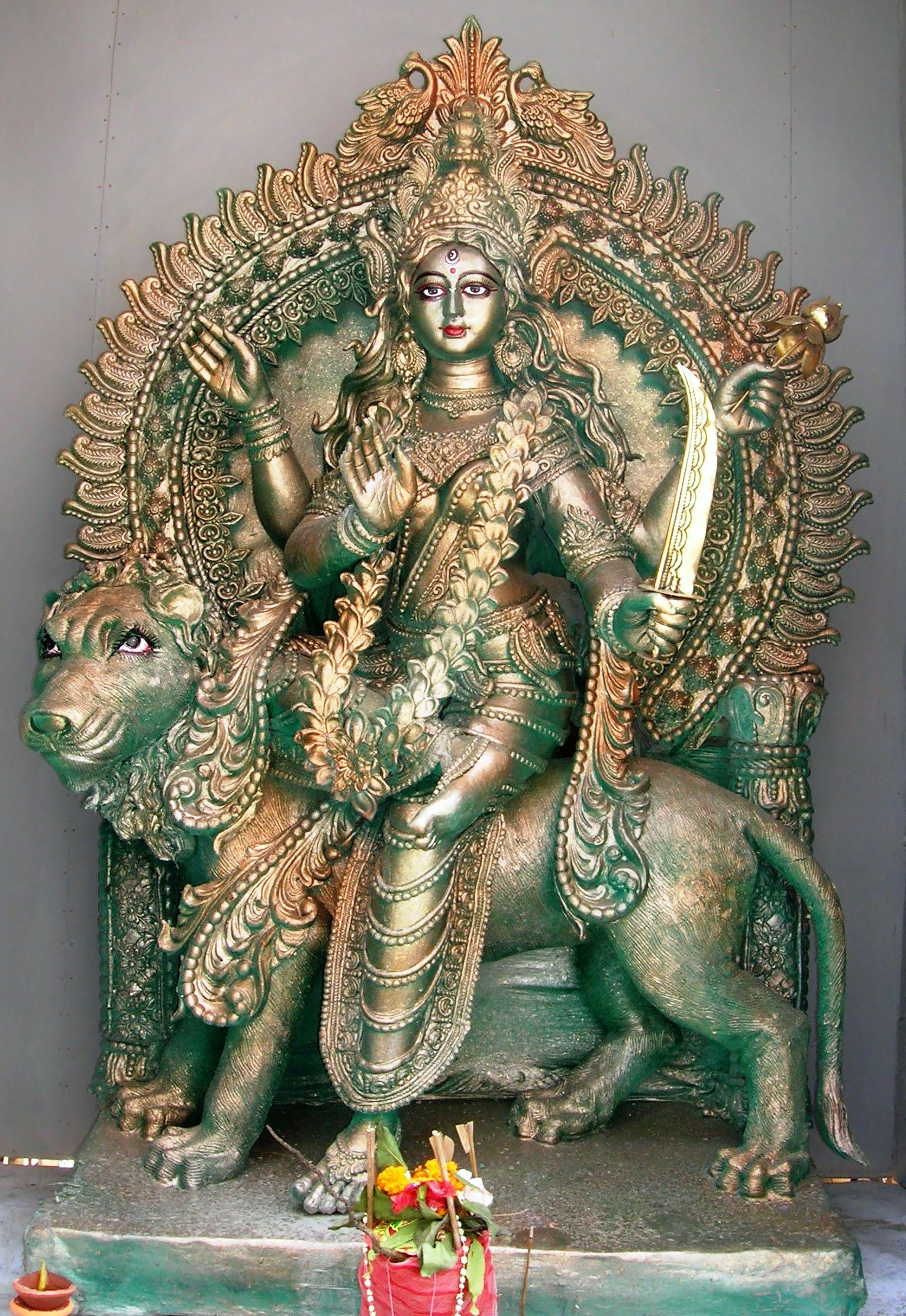 Devi Katyayani, Sanghasri, Kalighat, Kolkata, 2010.